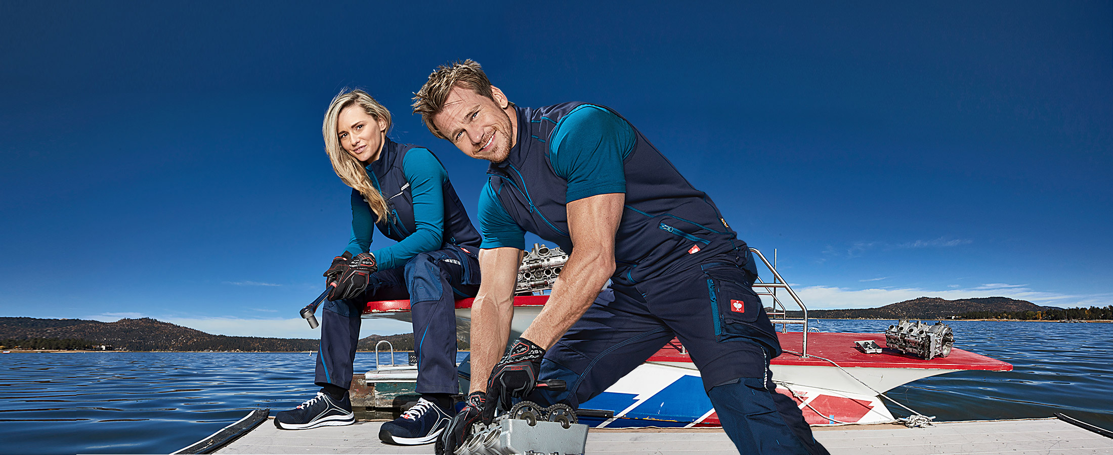 engelbert strauss workwear for men and women